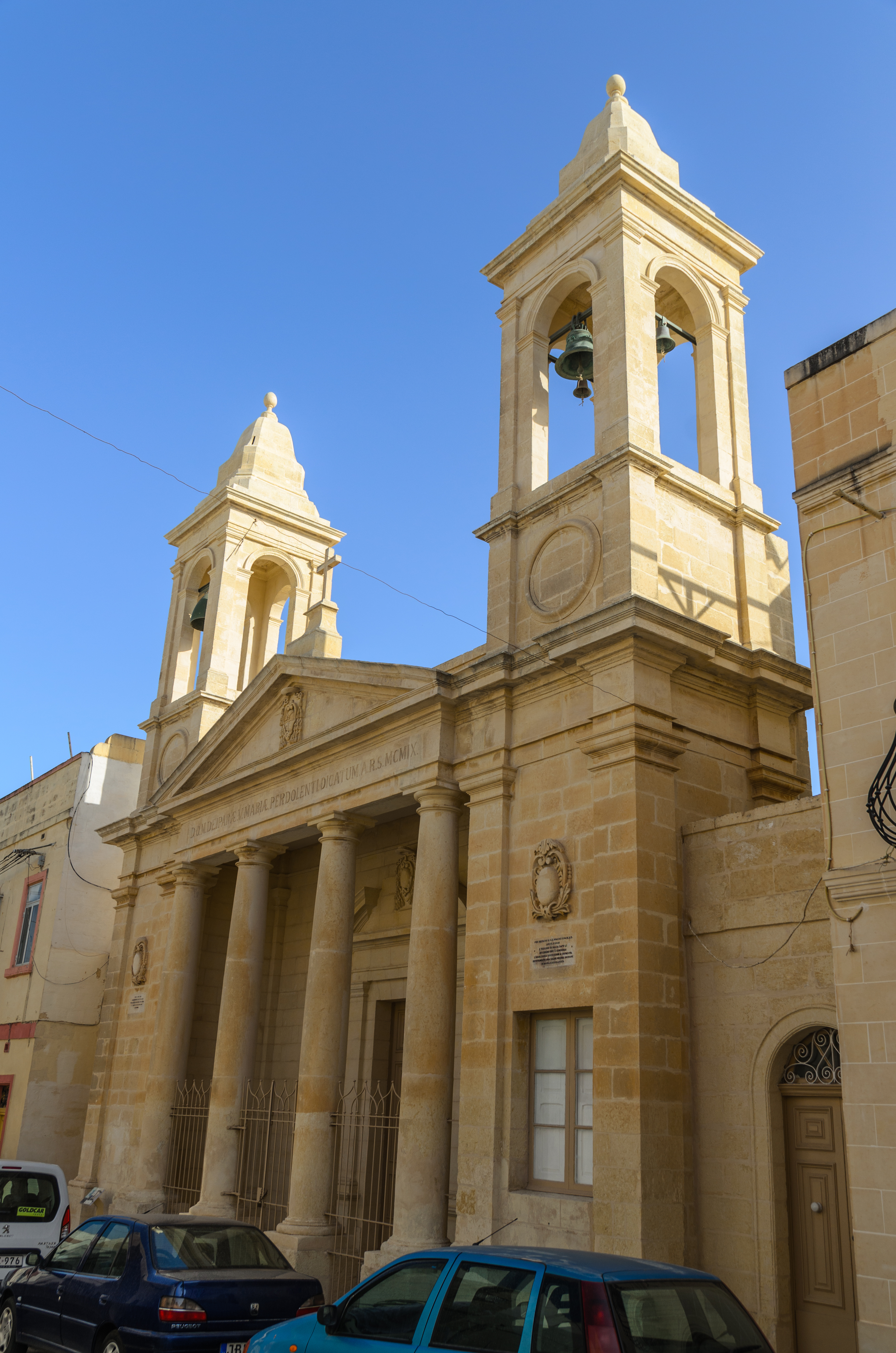 Church of Our Lady of Sorrows in Birżebbuġa, Malta